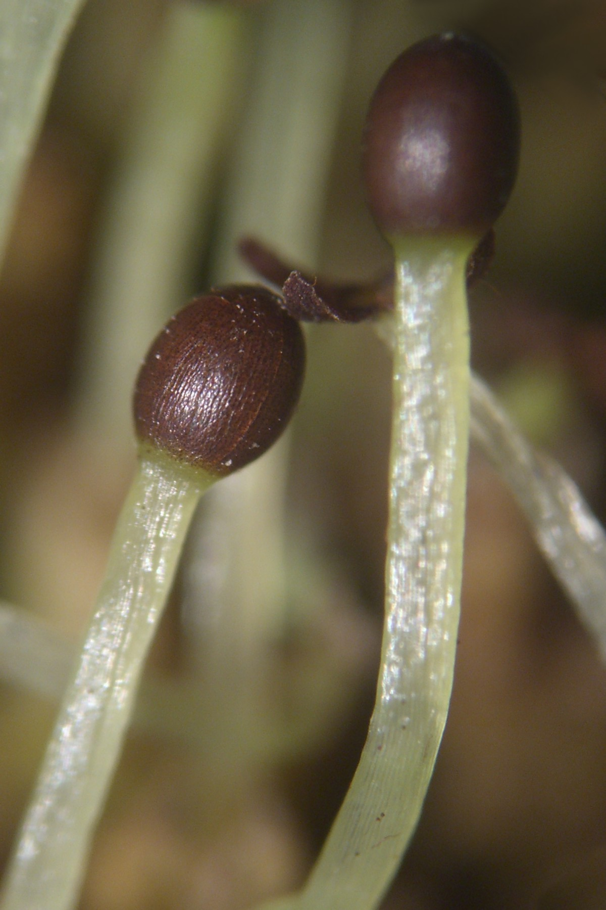 Sorry, I haven't a clue about liverworts. I'd thought this was a Pilophorus, but it clearly is not a lichen! But beautiful nonetheless. This was taken under a dissecting stereoscope at 30x.